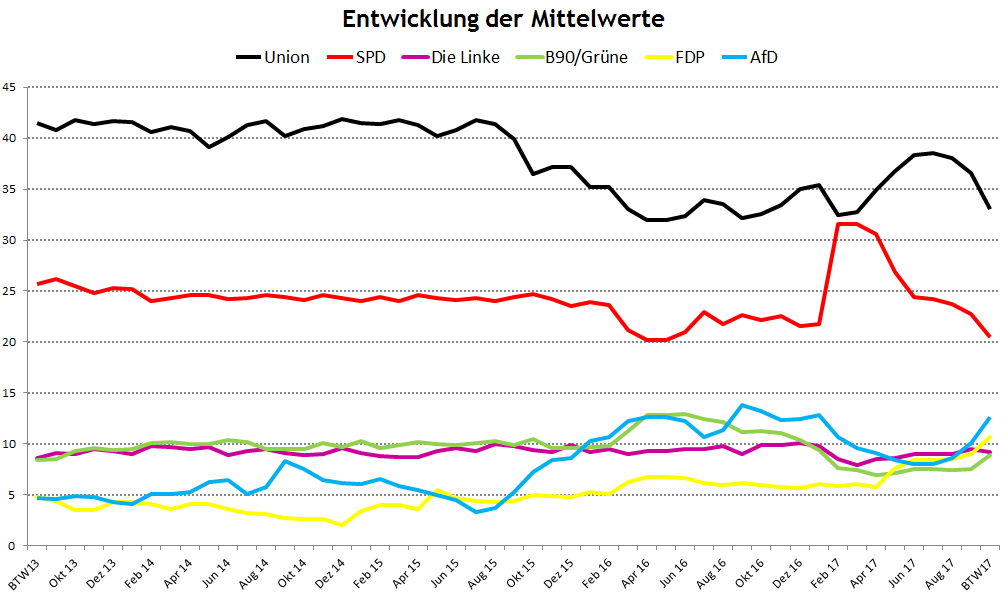 Stand 10.06